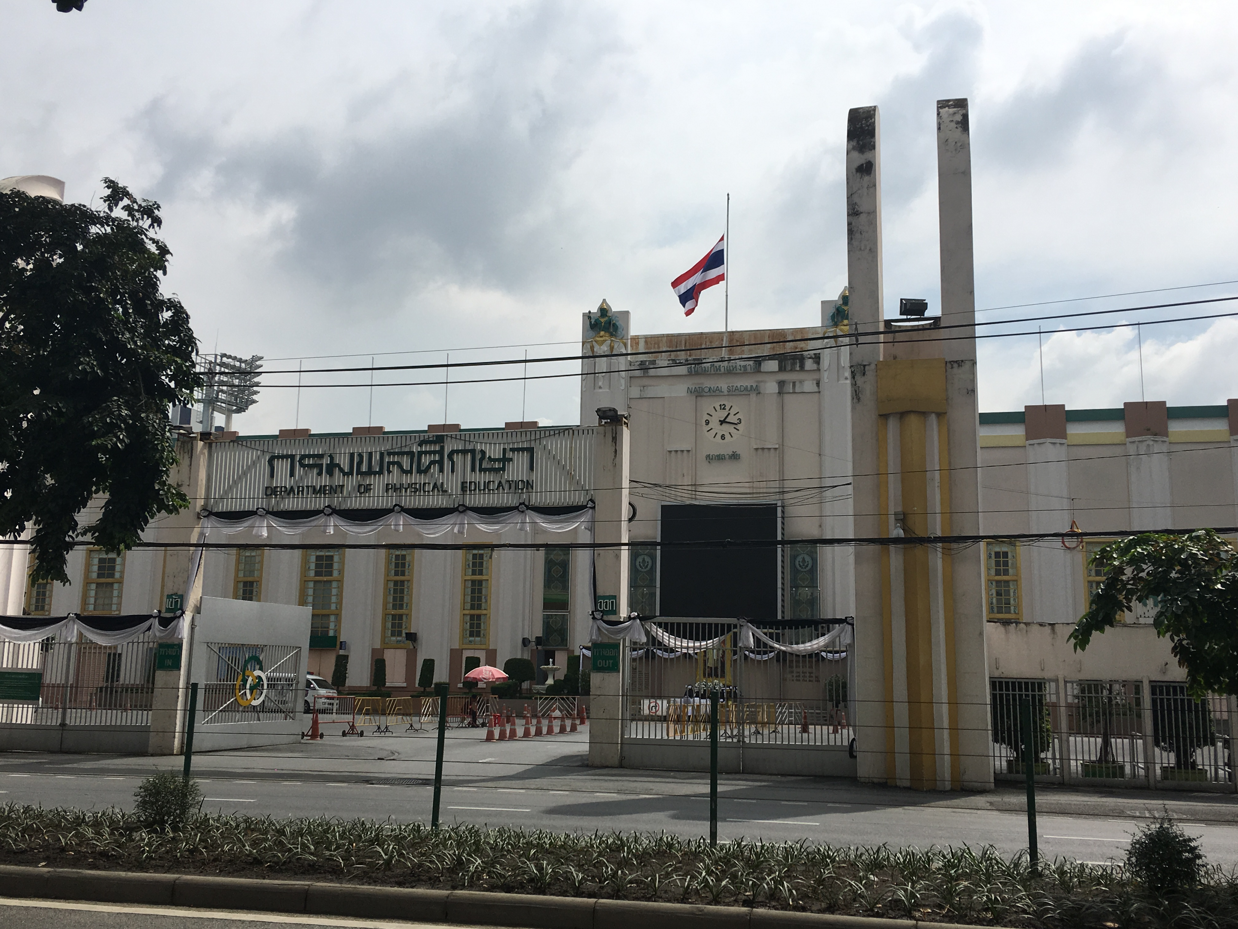 National Stadium at the Rama II Road, Bangkok (Thailand)